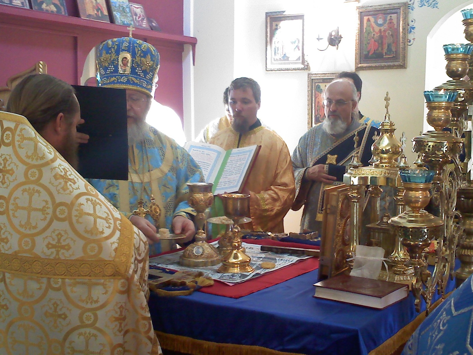 Following the ordination of an orthodox priest, the newly ordained priest then takes part in the further celebration of the Liturgy. After the transmutation of the Holy Gifts, the Bishop presents to him a portion of the Lamb(i.e., the Body of Christ), with the words: "Receive this pledge and preserve it whole and intact 'unto thy latest breath, for thou shalt be held to account for it at the second and dread coming of our Lord, and God, and Savior, Jesus Christ'"